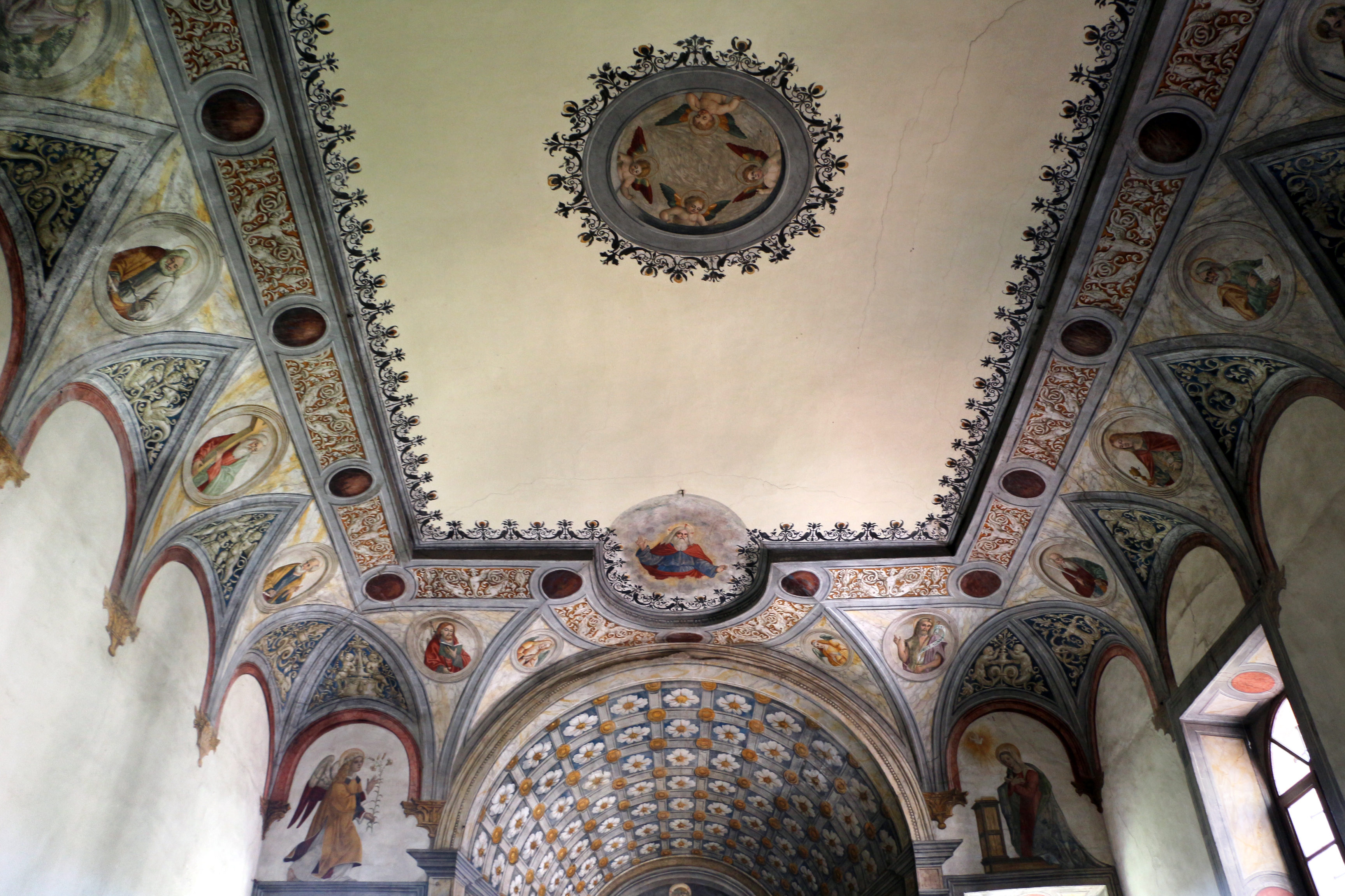 Abbazia di Pontida